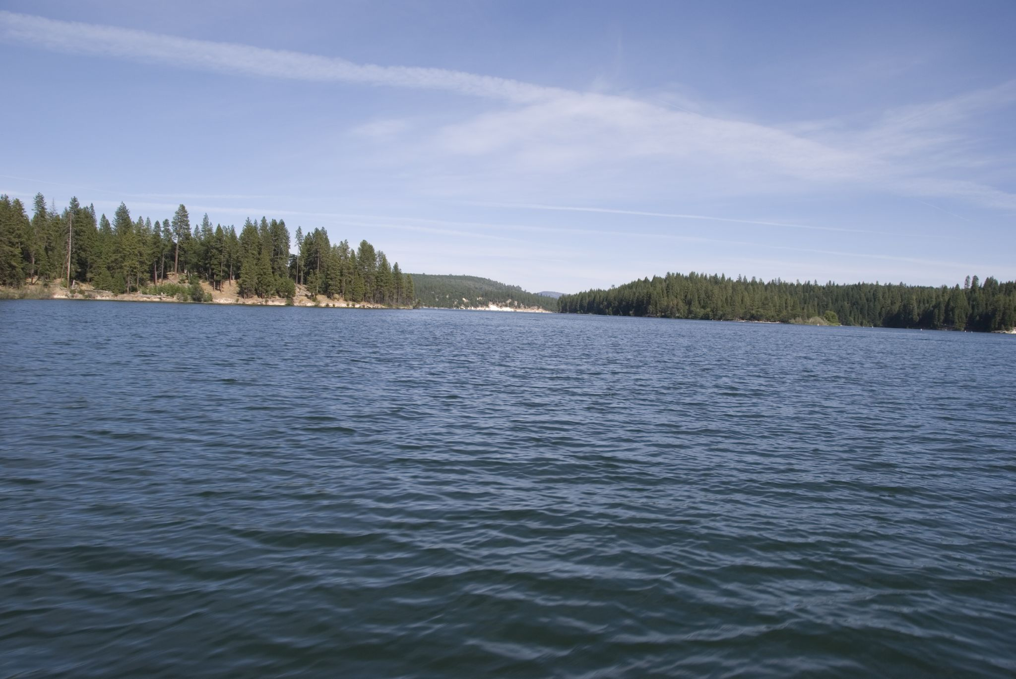 Lake Britton. Taken in Cayton, California